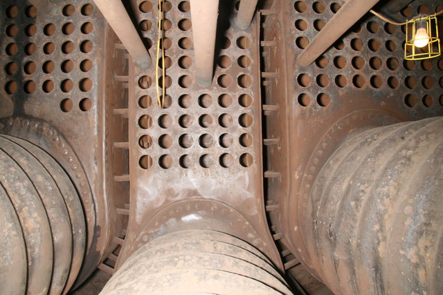 Steam tug Daniel Adamson - inside the Scotch boiler, near to Seacombe, Wirral, Great Britain. This is a very unusual view (I've waited over 30 years to take this picture) of the inside of the Scotch boiler seen here SJ3392 : Steam tug Daniel Adamson - Scotch boiler . The majority of the small fire tubes are out, allowing this view through the front tubeplate. Each small hole (including the one I'm shooting through) should contain a fire tube as represented by the three that are left in situ. At the bottom you can see the three corrugated furnace tubes that would have the grates inside them. At the rear are the combustion chambers that are stayed together and to the shell (not visible). The tubes carry the gases forward from the combustion chambers to the funnel uptake. The tubes are mechanically expanded into the tubeplates.